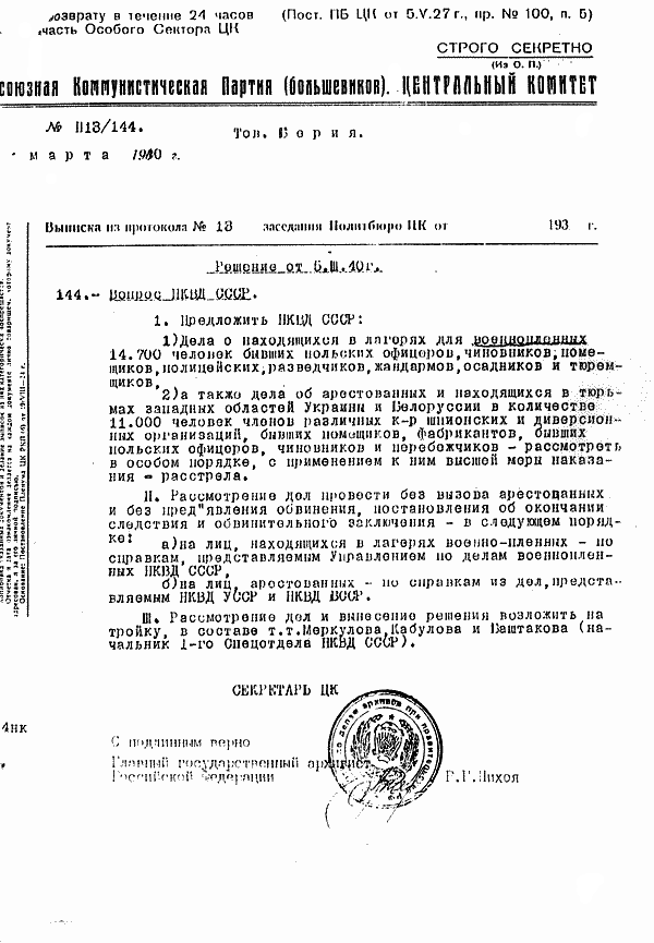 The abstract of the decision of murder all Polish officers who were the war prisoniers in the Soviet Union. Both - the agreement and the command to execute. 5.3.1940